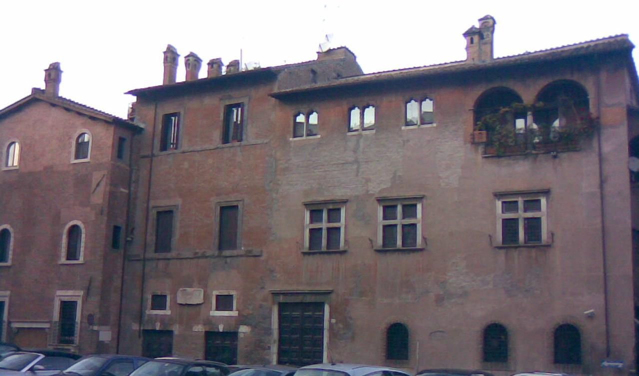 Mattei house in Piscinula square